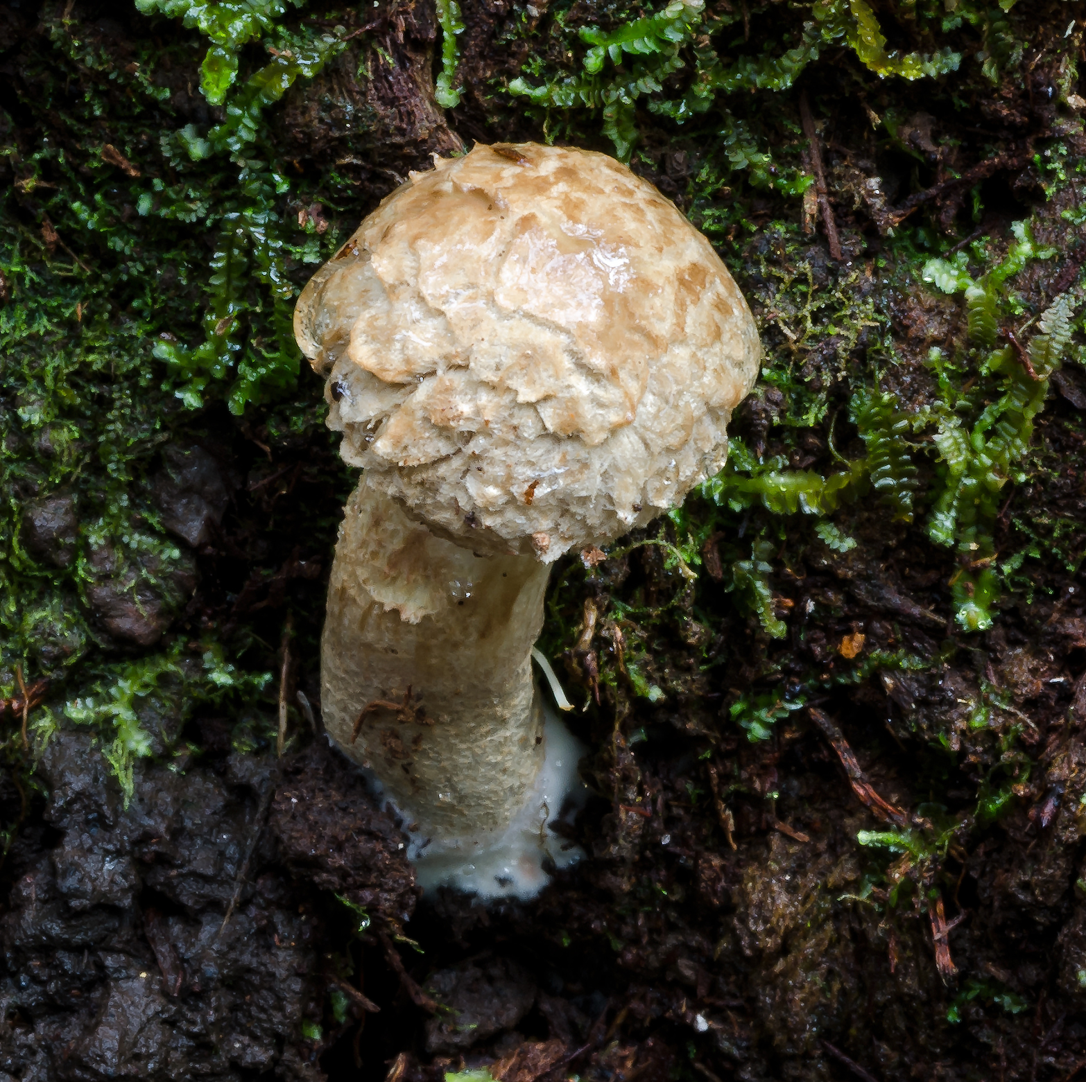 The bolete mushroom Boletellus ananiceps (Berk.) Singer. This small fungi on wood (Large Eucalyptus) was photographed in the rain forest region of Eastern Australia in Queensland or New South Wales.